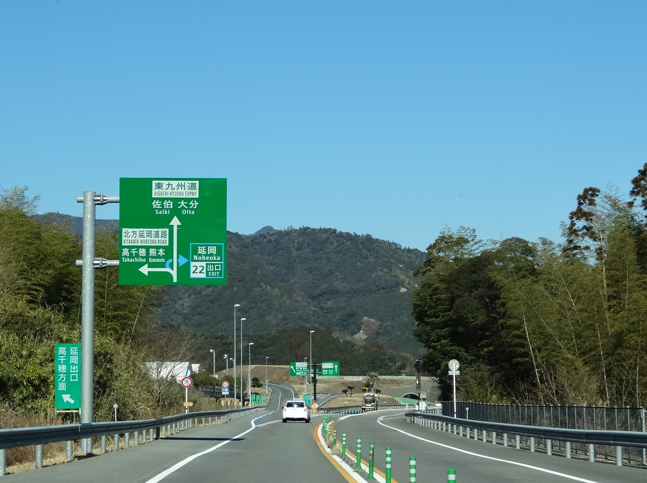 The Nobeoka Junction of Higashi-Kyushu Expressway (National Route 10 Nobeoka Road) at Nobeoka City, Miyazaki Prefecture, Japan.